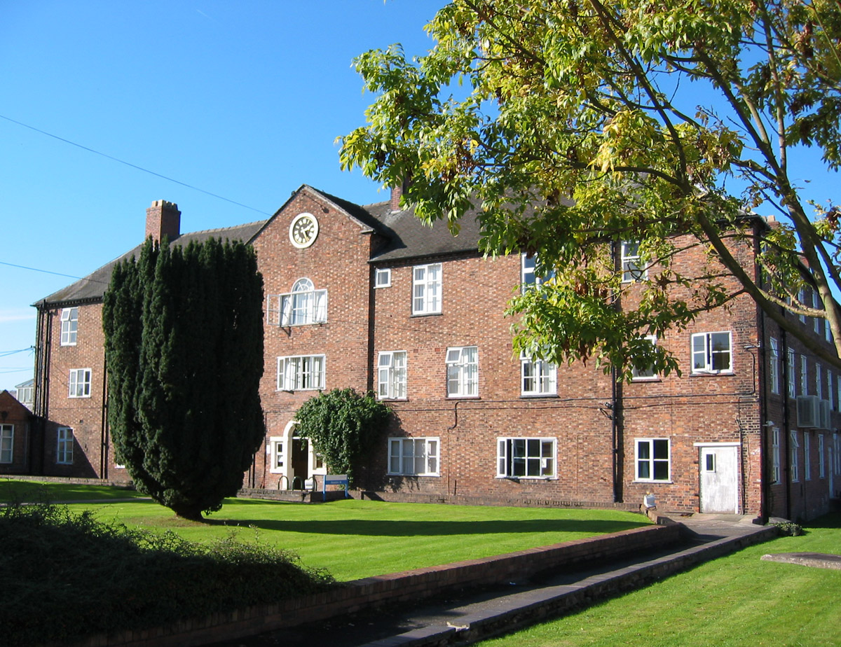 Former workhouse at Nantwich, Cheshire, constructed in 1780